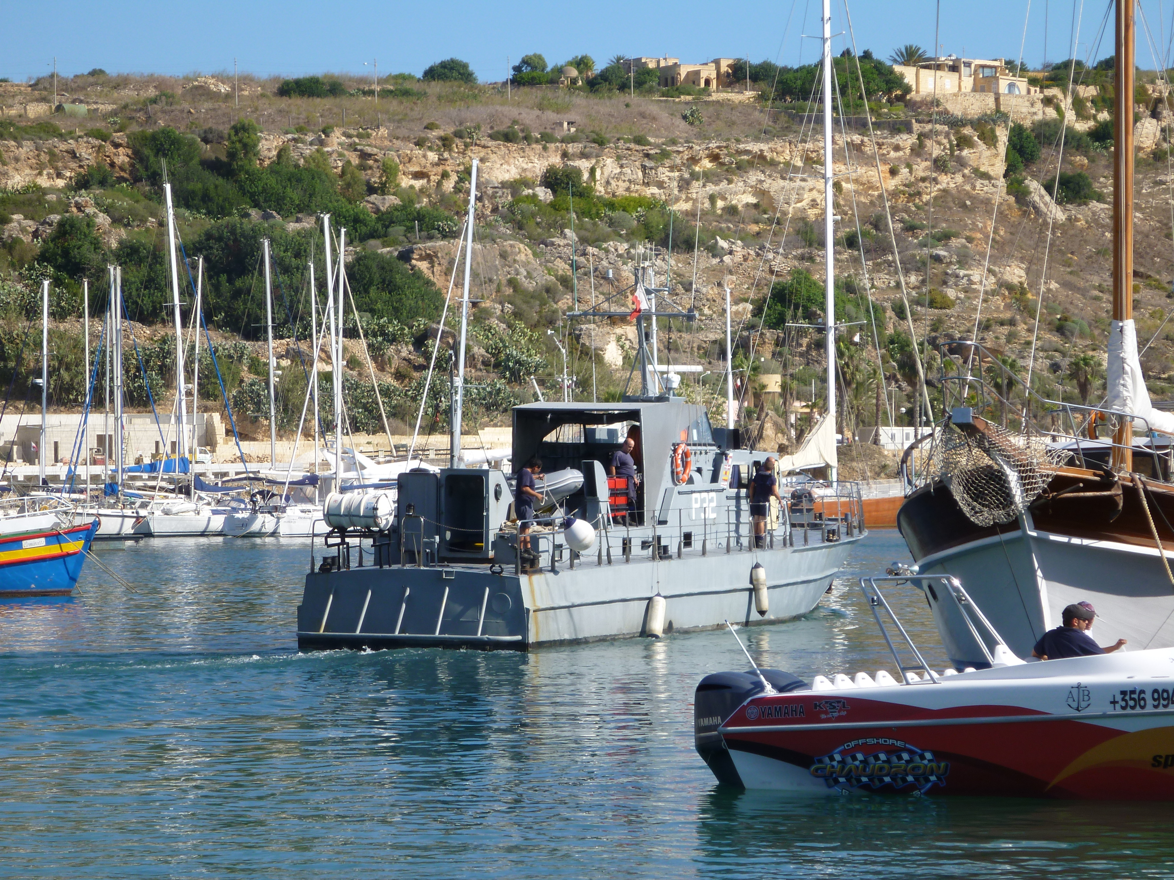 AFM BREMSE CLASS PATROL VESSEL Built in 1971/2 for the ex-DDR Sea-border Guard. It was transferred from the Federal Republic of Germany in 1992 to Malta works around Gozo. Picture taken in the harbor of Mġarr. (